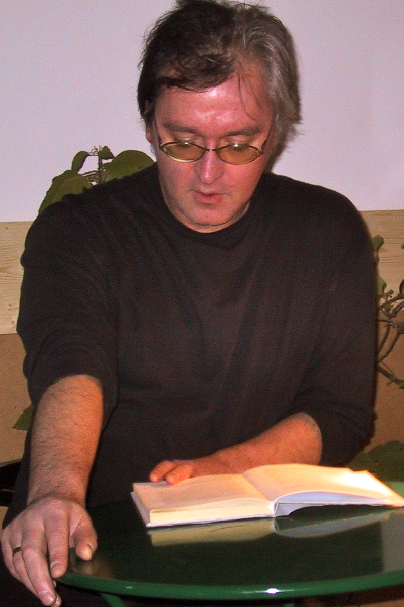 Bruno Jaschke reads at the Literary Saloon in Vienna (2003).